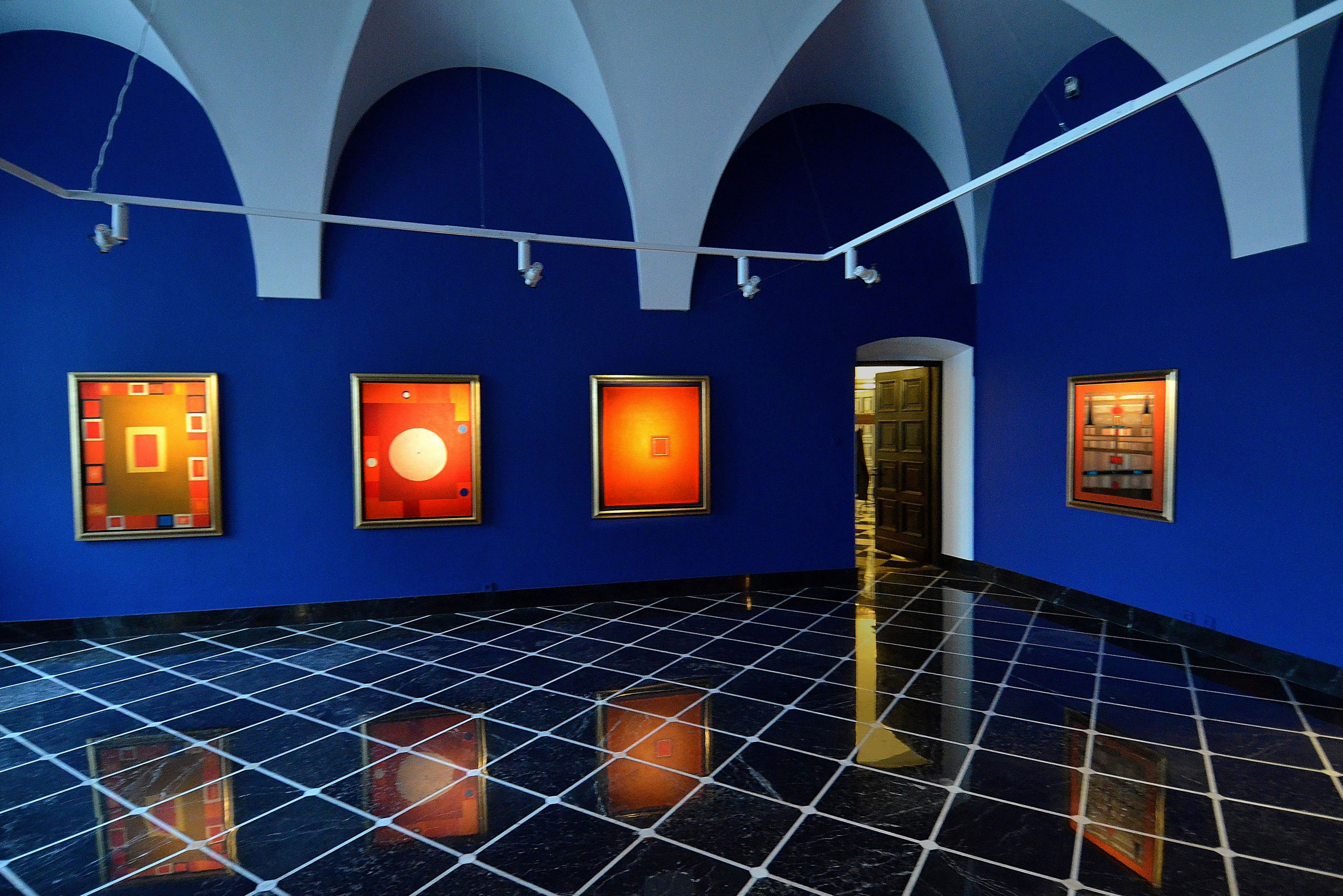 Jerzy Nowosielski Hall in the Presidential Palace in Warsaw